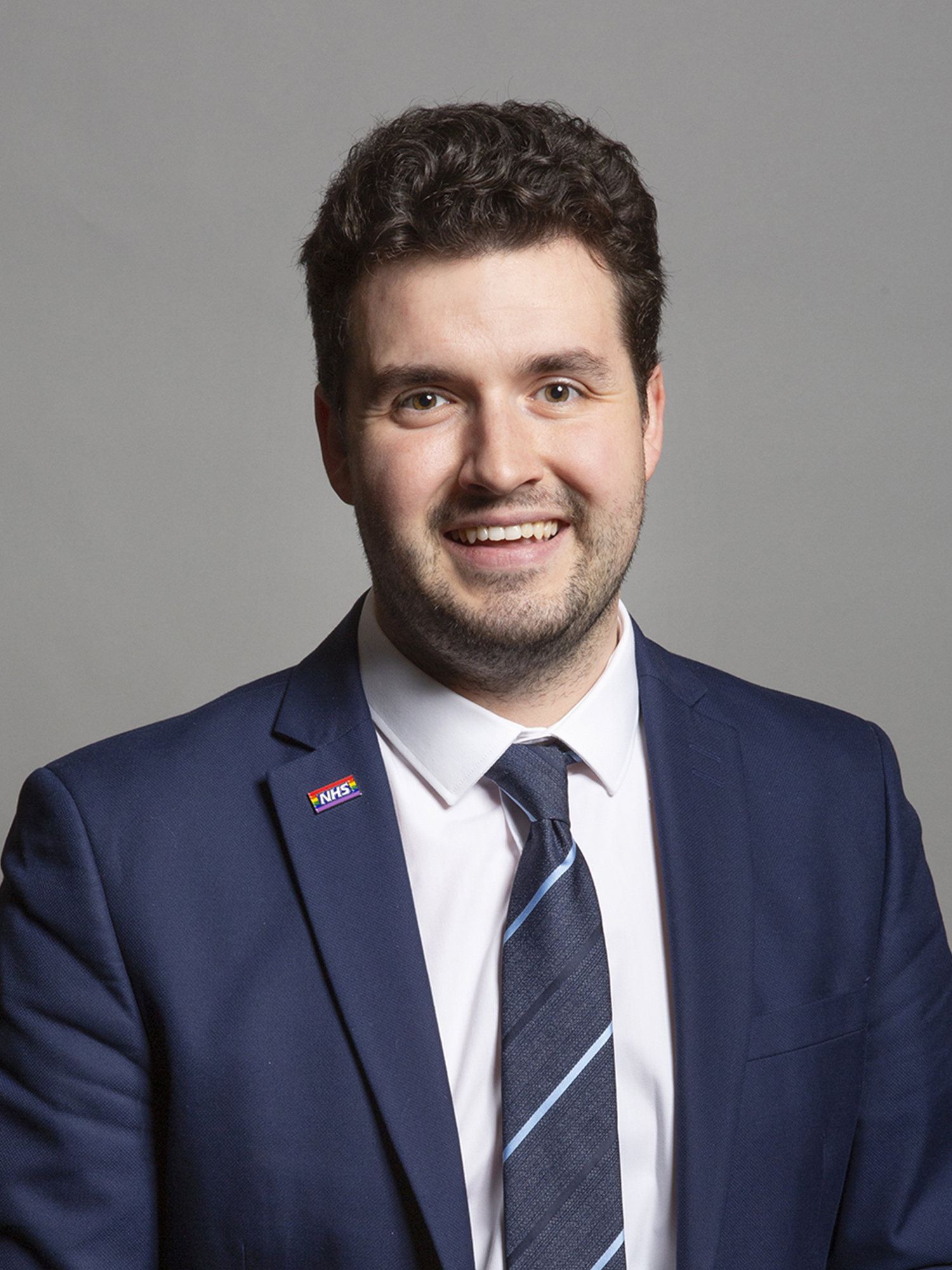 Official portrait of Elliot Colburn MP 3×4 portrait of Elliot Colburn